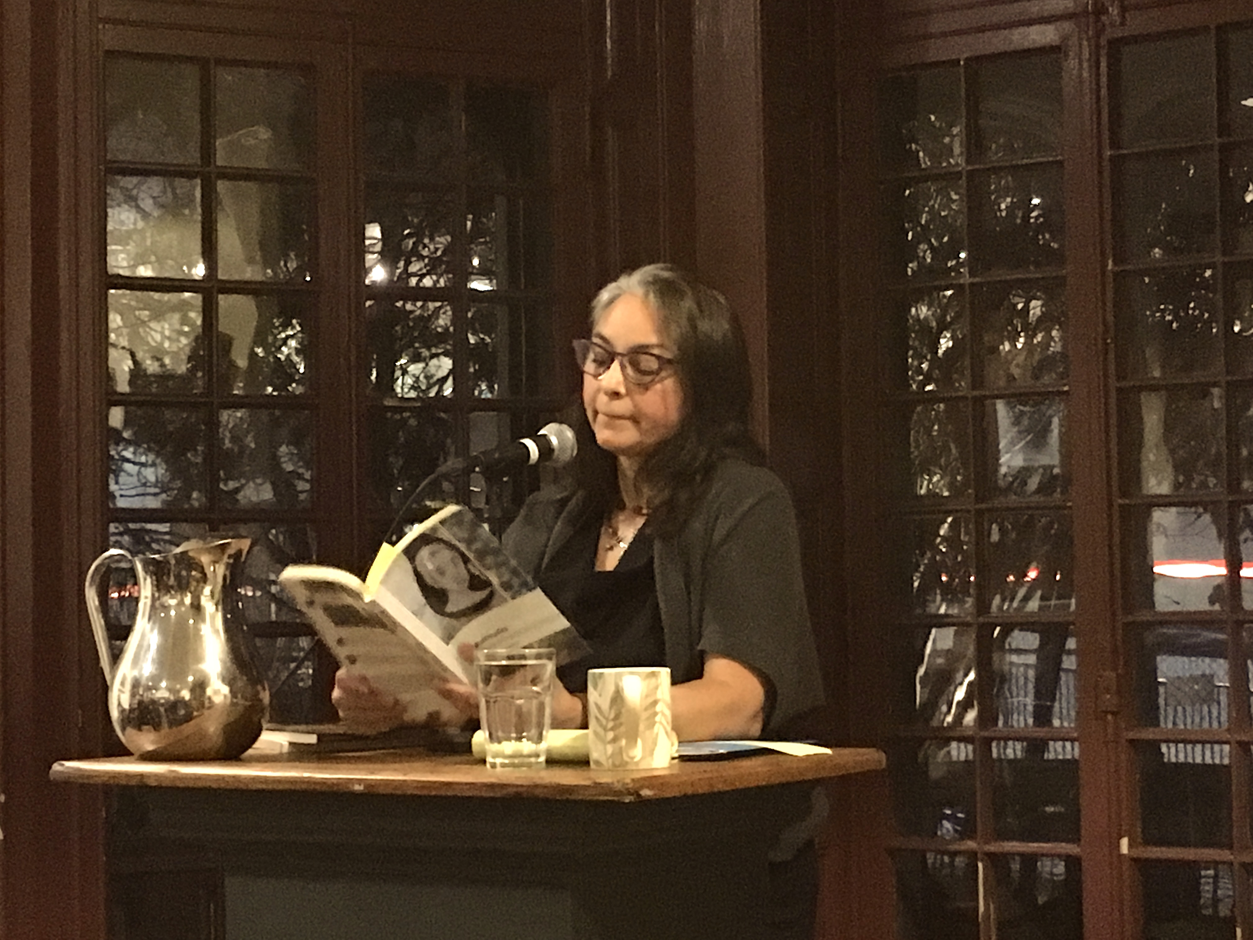 Canadian poet Margaret Christakos at the Kelly Writers House of the University of Pennsylvania in Philadelphia.